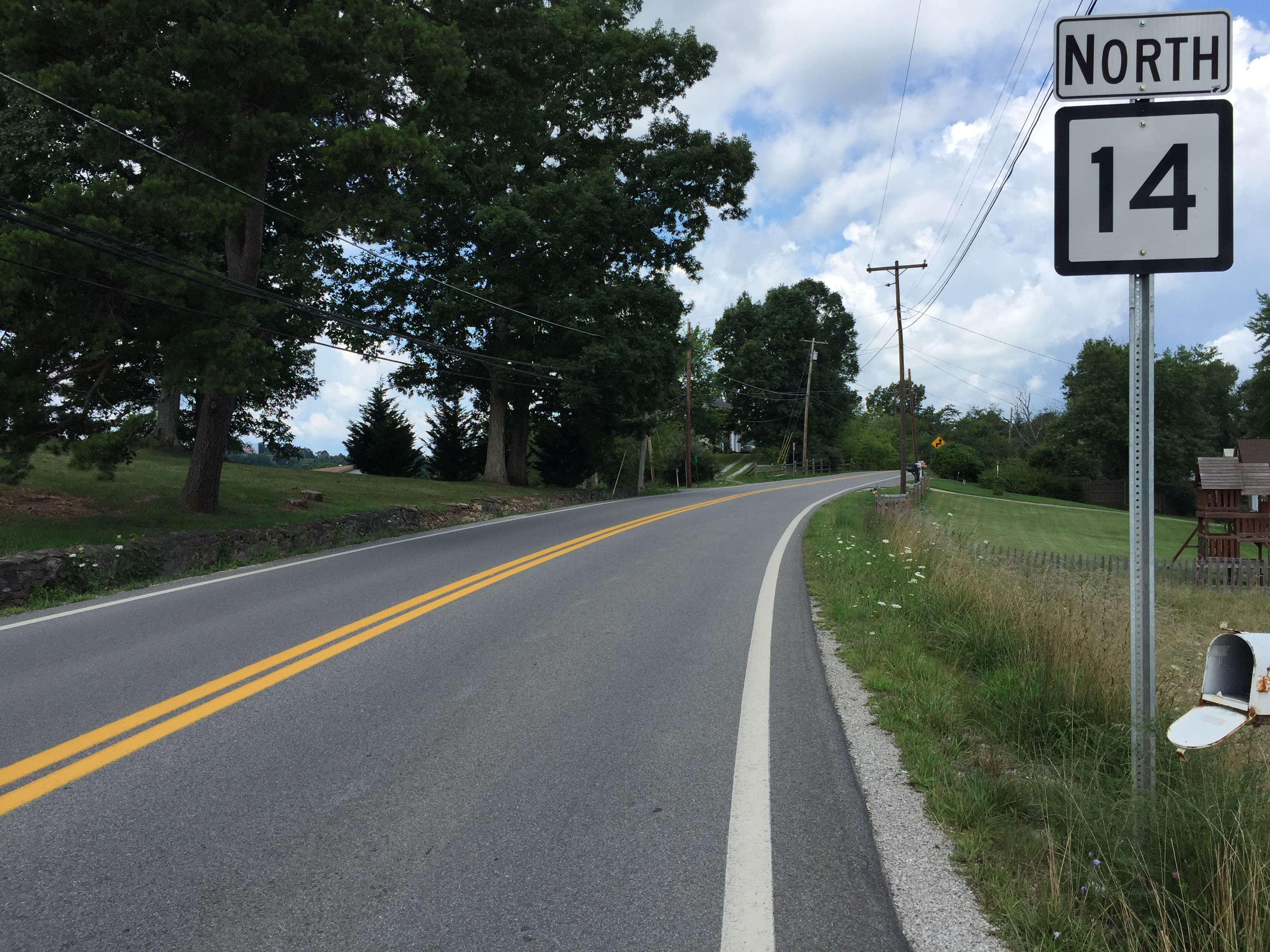 View north along West Virginia State Route 14 (Parkersburg Road) at Hospital Drive in Barr, Roane County, West Virginia